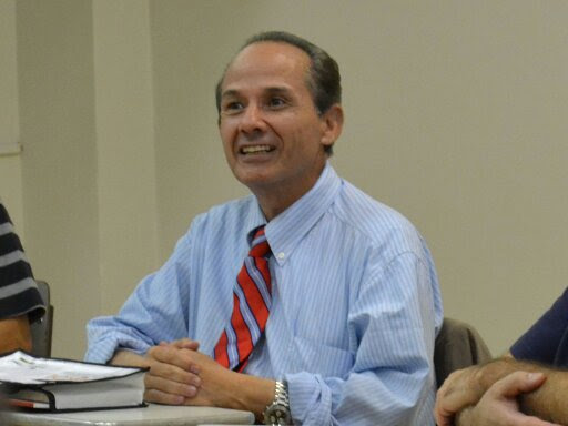 Bernardo Javalquinto Lagos.